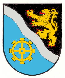 Coat of arms of Steinalben